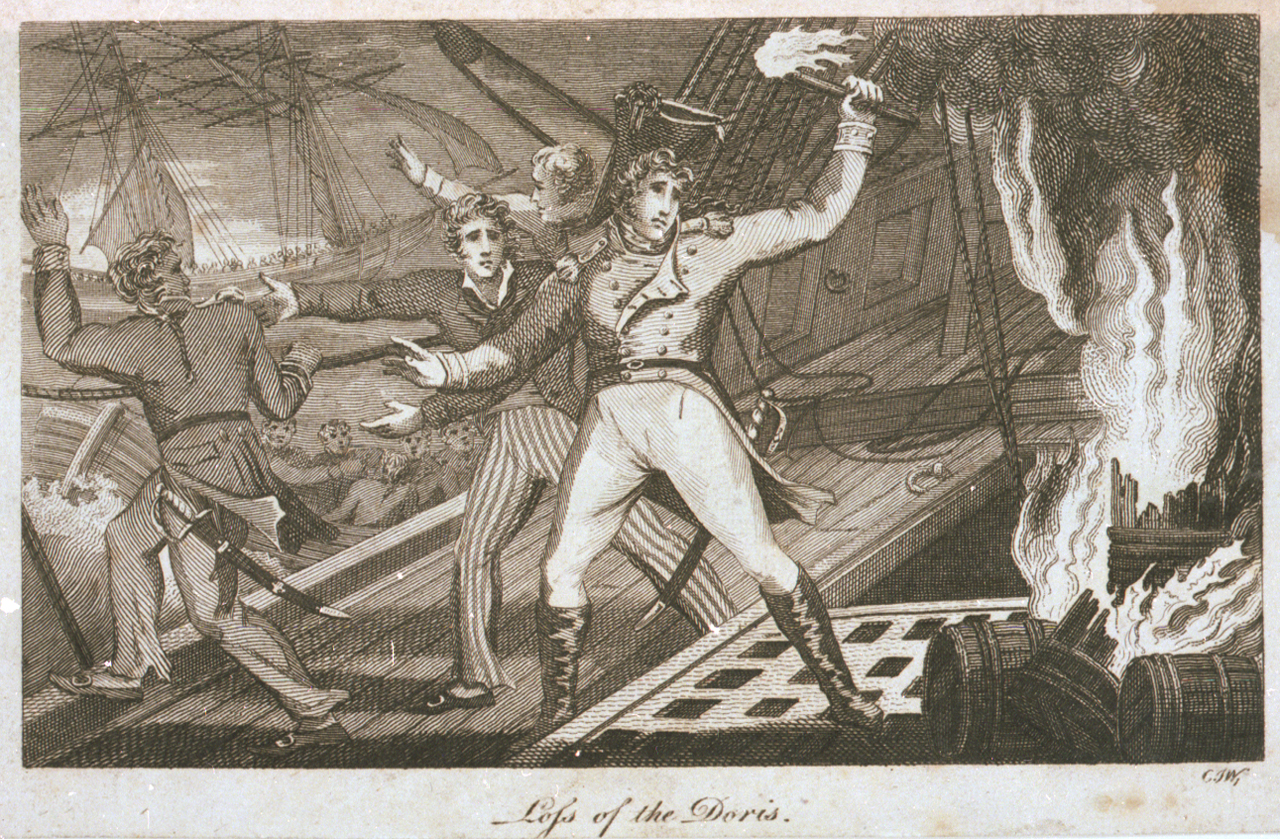 Loss of the Doris PU6042 Stipple etching and engraving showing Captain Patrick Campbell setting the ‘Doris’ alight in January 1805 to avoid capture, having struck a rock and wrecked near Diamond Island, Quiberon Bay. This action was necessary after an unsuccessful attempt to bring her back to England. Campbell in centre of image; two crewmen behind him (one gesturing to leave) and one at far left; burning barrels at right. Behind, crew on lifeboats; further figures on two-masted vessel at left background. ‘CJW’ signed below image at right.